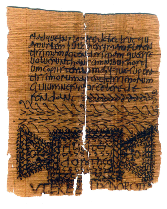 The dedication to an unknown Dorotheos in the Barcelona-Montserrat "miscellaneous" codex, possibly the Dorotheos of The Vision of Dorotheos. The dedication follows the text of Cicero's Catiline Orations, it is a tabula ansata containing the Latin text "filiciter // dorotheo" (underneath which is inscribed "UTERE [F]ELIX DOROTH[EE]". There are two such dedications in this codex. The papyrus is known under the designation P.Monts.Roca inv. 149